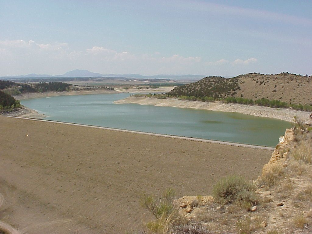 Glendo Dam with the Glendo Reservoir in Wyoming, USA